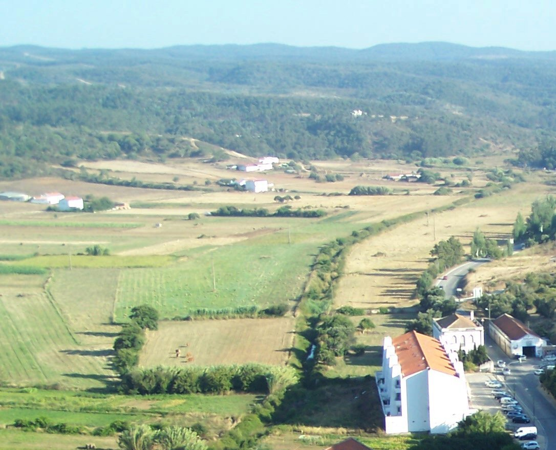 Ribeira de Aljezur, near the town of Aljezur, in southern Portugal.